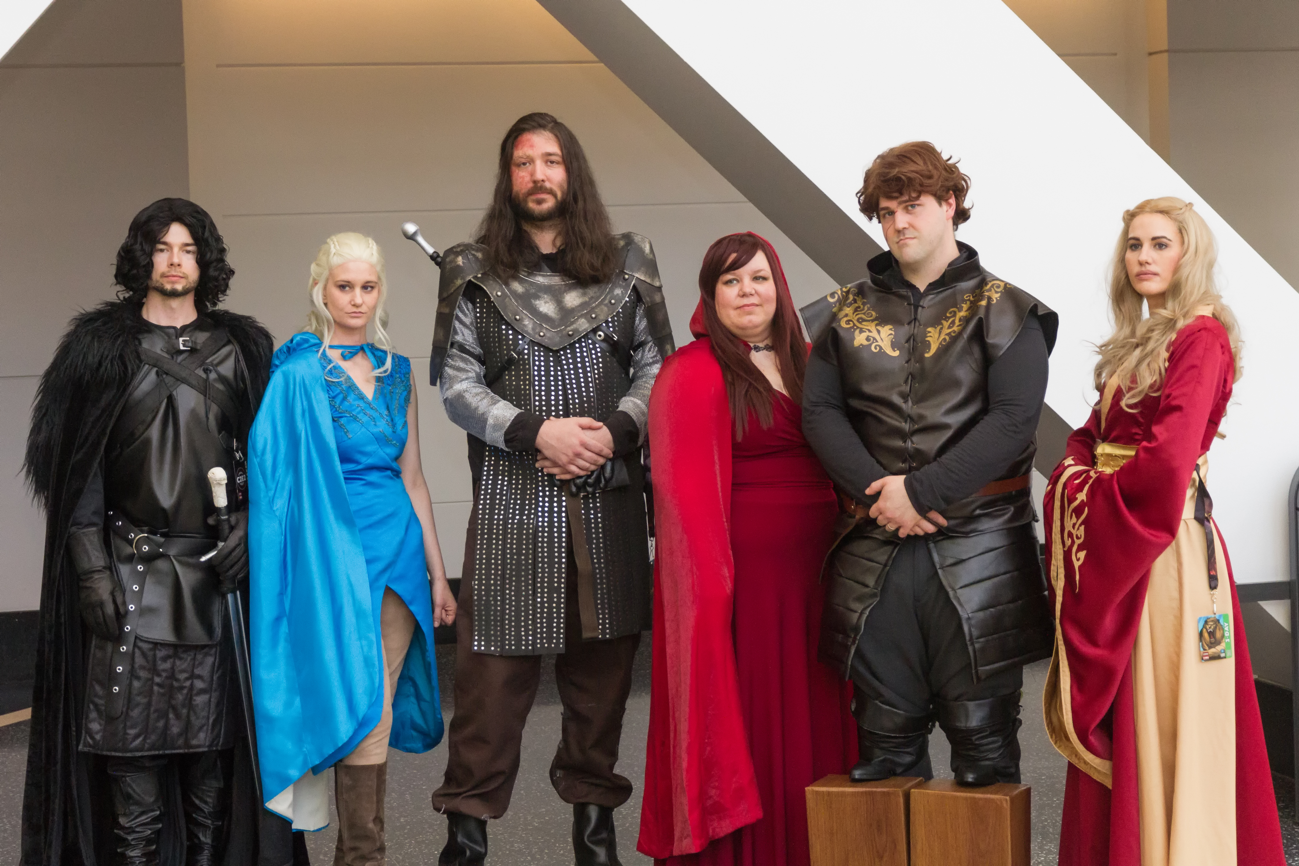 Game of Thrones cast